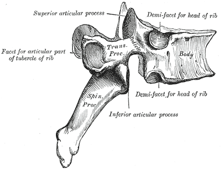 Thoracic vertebra as seen from side